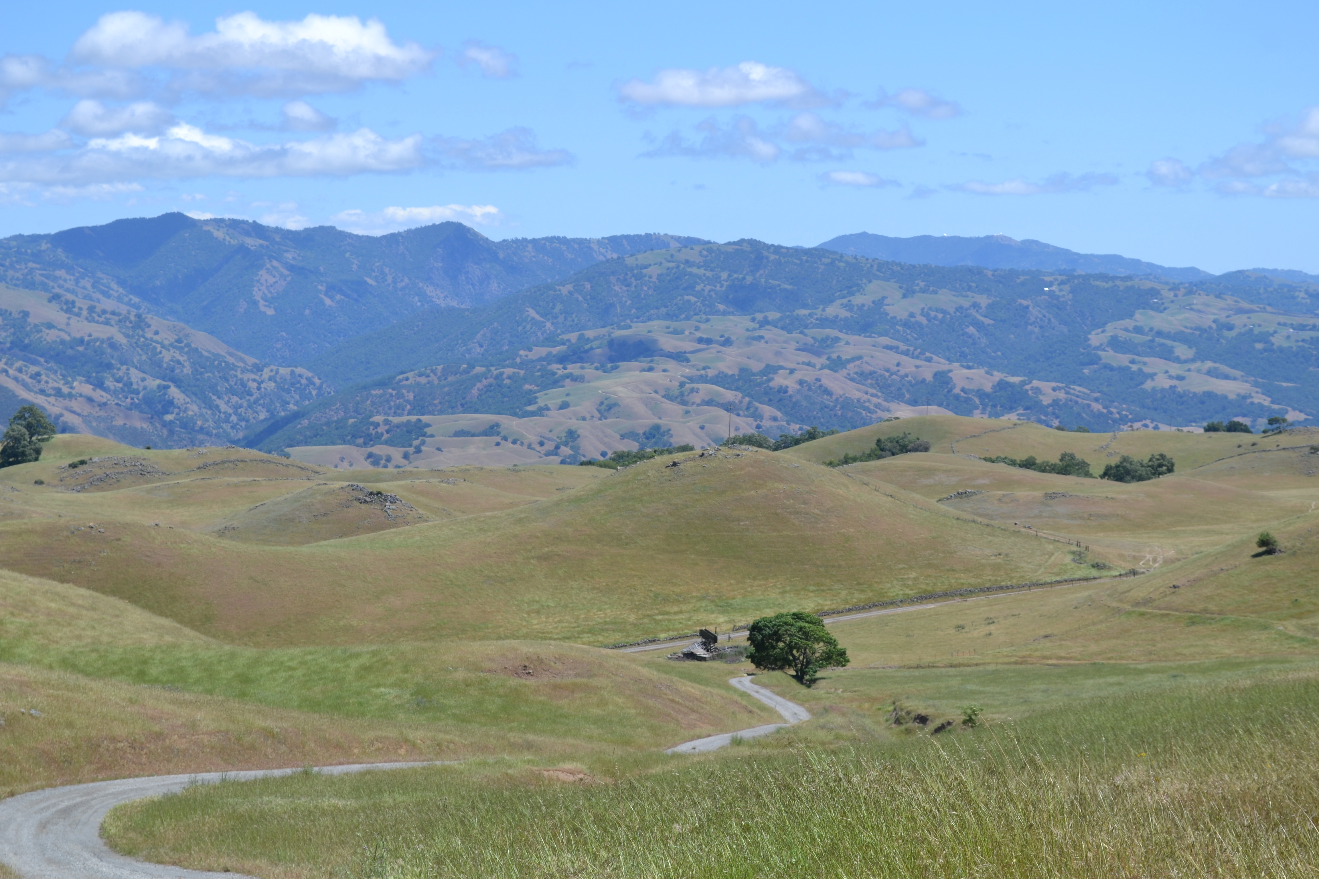 Diablo Range including Mount Hamilton (right)